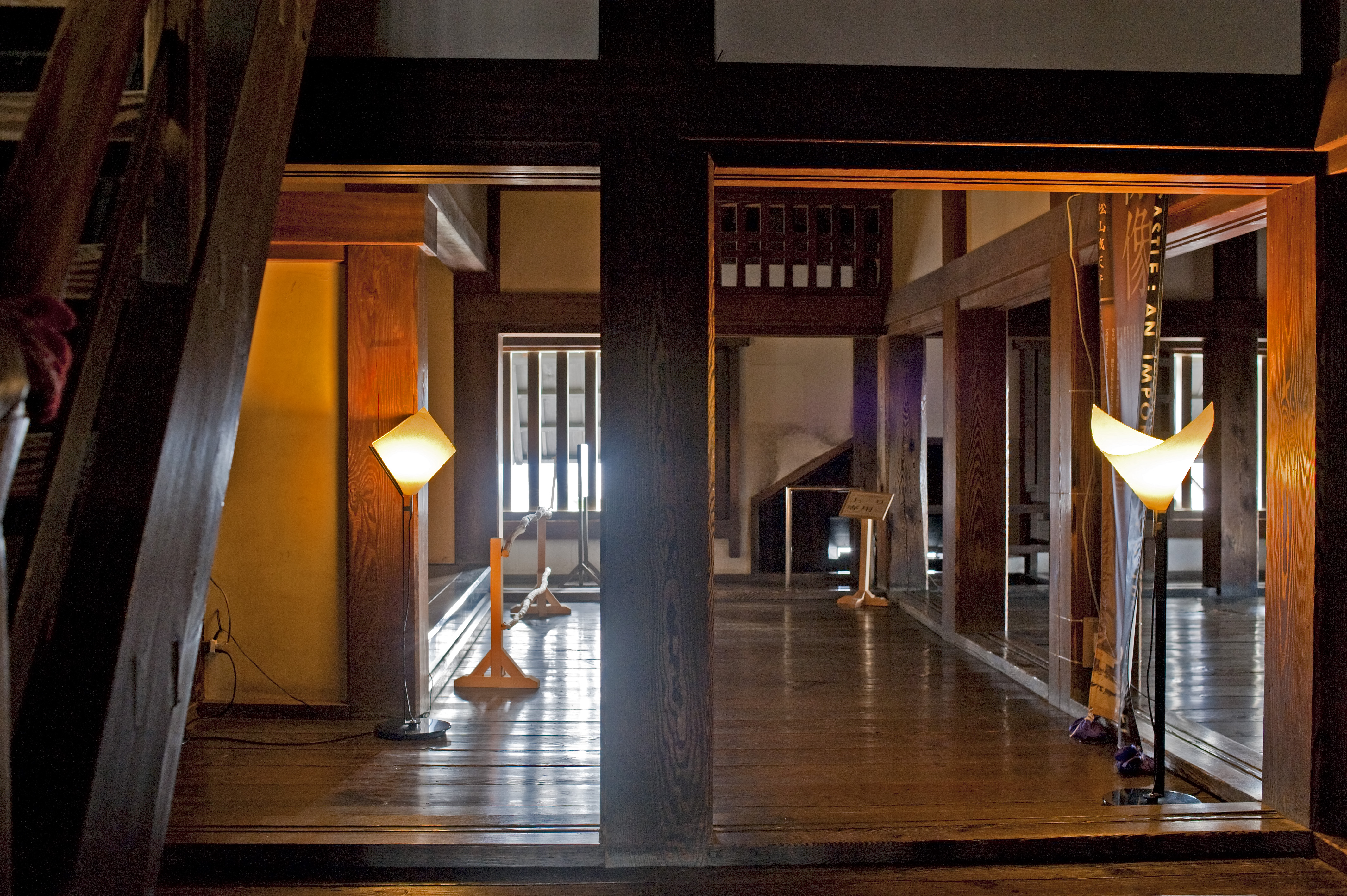 Matsuyama Castle in Matsuyama, Ehime